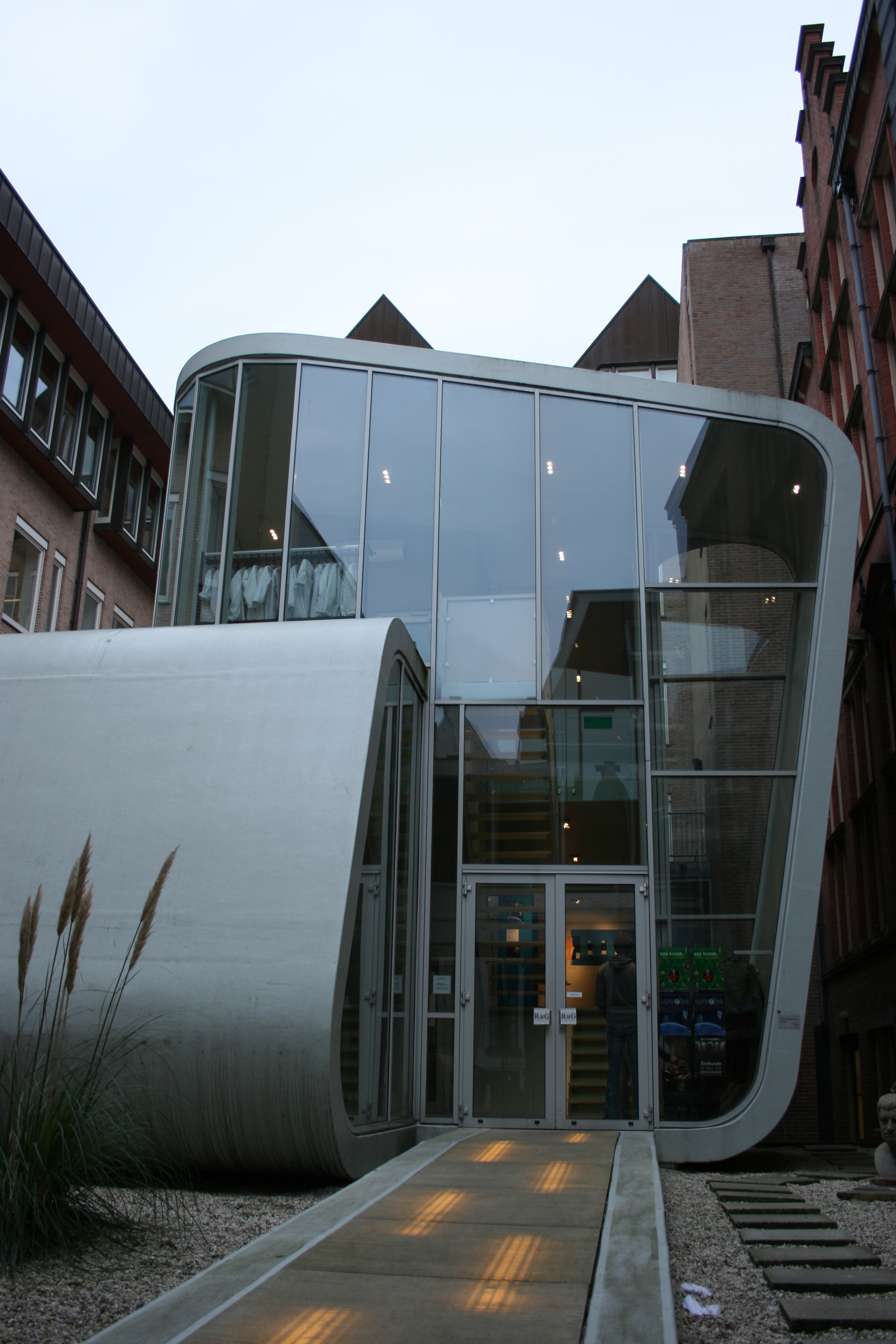 University museum in Groningen, The Netherlands